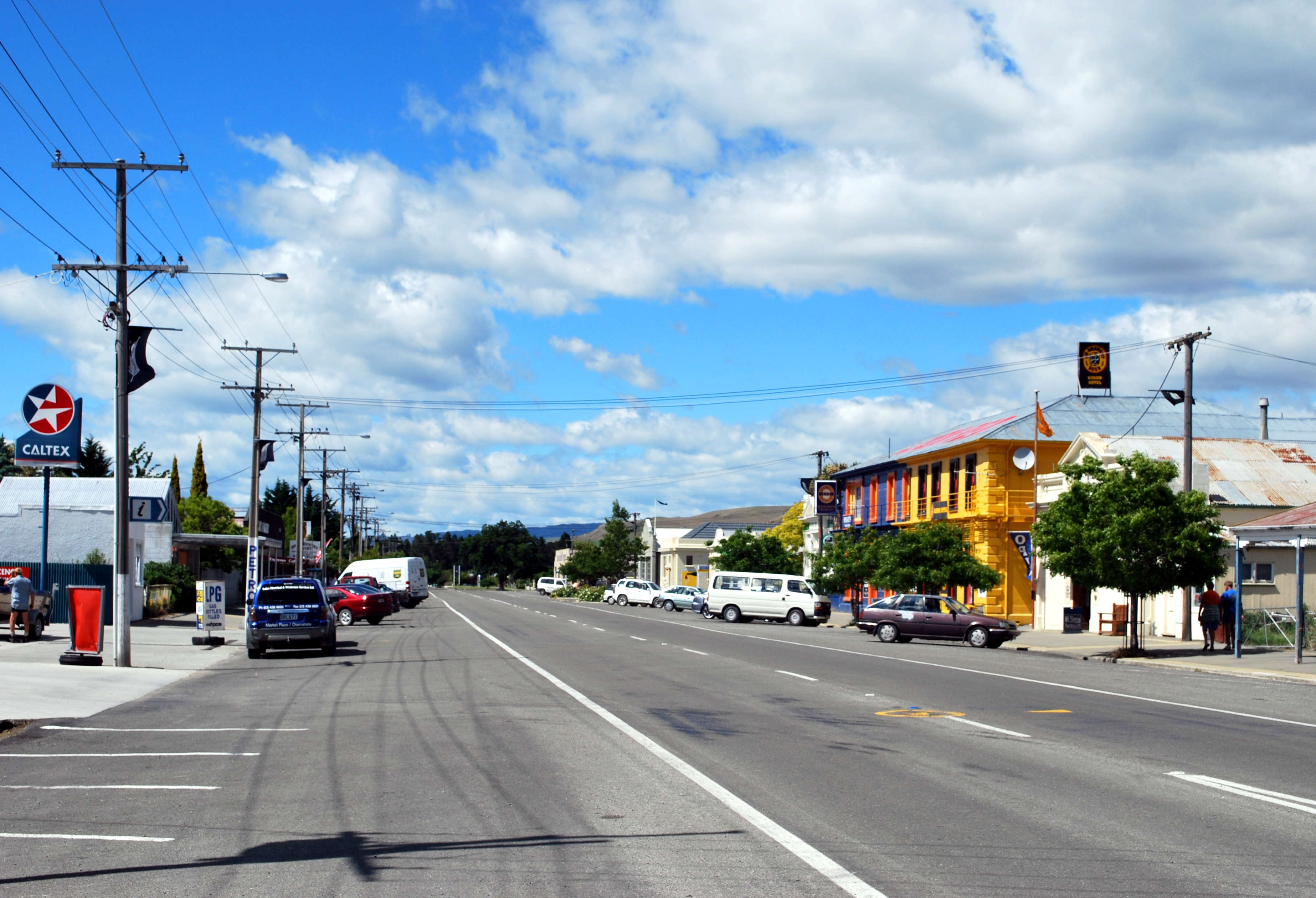 Bledisloe St (New Zealand State Highway 83), the main street of Kurow, New Zealand